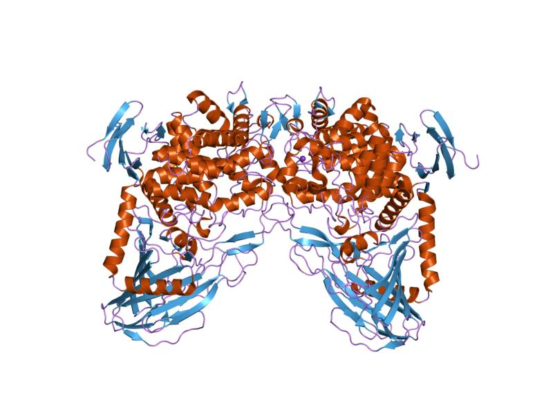 Cartoon representation of the molecular structure of protein registered with 1h54 code.